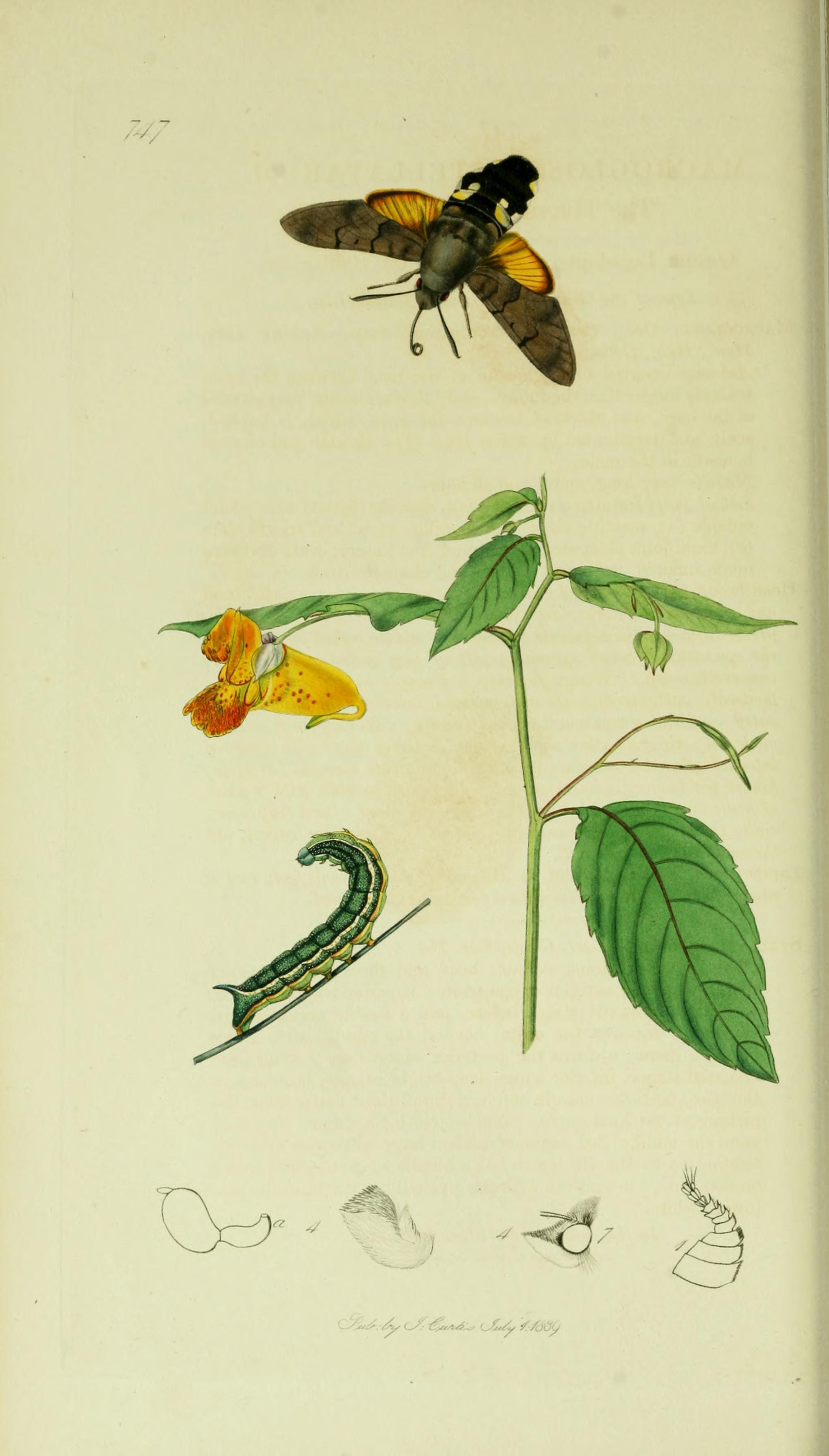 An illustration from British Entomology by John Curtis. Macroglossa stellatarum or Macroglossum stellatarum (Humming-bird Hawk).